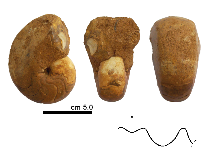 Hercoglossa species fossil; a nautiloid characterized by a markedly sinuous sutural pattern - Specimen from Madagascar (Tulear area, unknown site); probably from early Late Cretaceous sediments. The genus Hercoglossa is reported from Late Cretaceous (Campanian-Maastrichtian) of Madagascar by Collignon M. (1972). However, this genus occurs at least from Late Jurassic (Foord A.H. and Crick G.C., 1890). The Hercoglossidae are probably the ancestors of the Aturiidae (worldwide diffused nautiloid family of Paleocene-Miocene). That is not Hercoglossa, it's a jurassic specious, probably of oxfordian age, called Pseudaganides. Il ne s'agit pas d'un Hercoglossa, c'est une espèce jurassique, probablement oxfordienne, appartenant au genre Pseudaganides References Collignon M. (1972). Contribution to the study of sedimentary basins. The “coastal” basin of Gulf of the Menabe(Madagascar). Endemic character of its fauna. Bull. Acad. Malg., 49(2). Foord A.H. and Crick G.C. (1890). On some new and imperfectly-defined species of the Jurassic, Cretaceous, and Tertiary nautili contained in the British Museum. (Nat. Hist.). Ann. Nat. Hist. 6(5), 388-409.